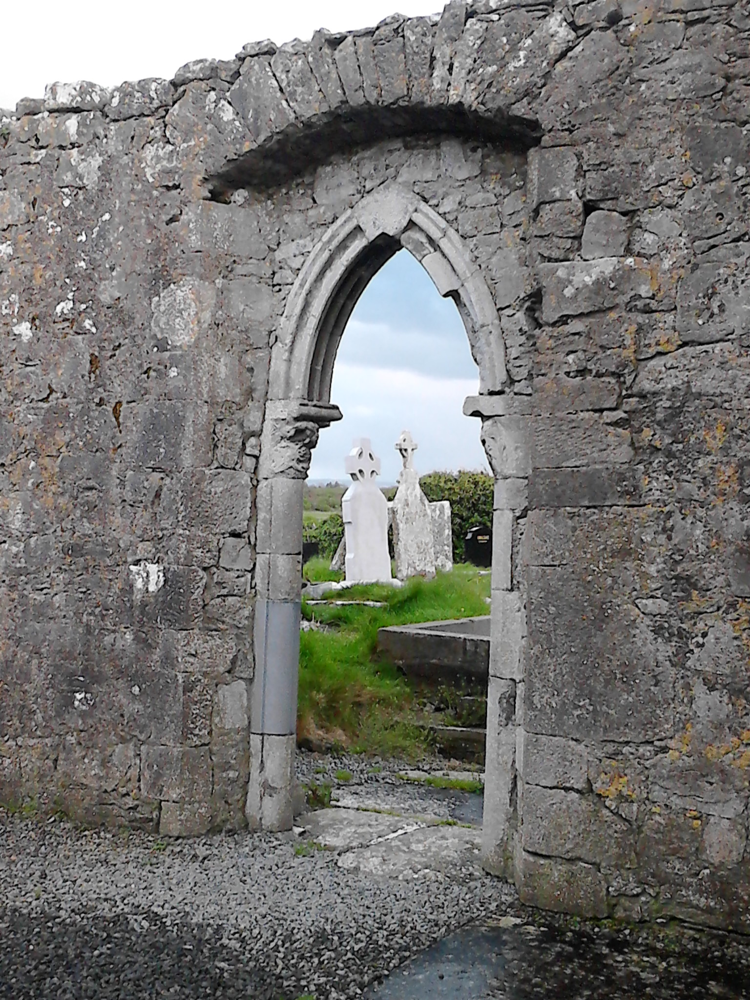 Drumacoo Early Medieval Ecclesiastical Site ornate doorway viewed from inside.